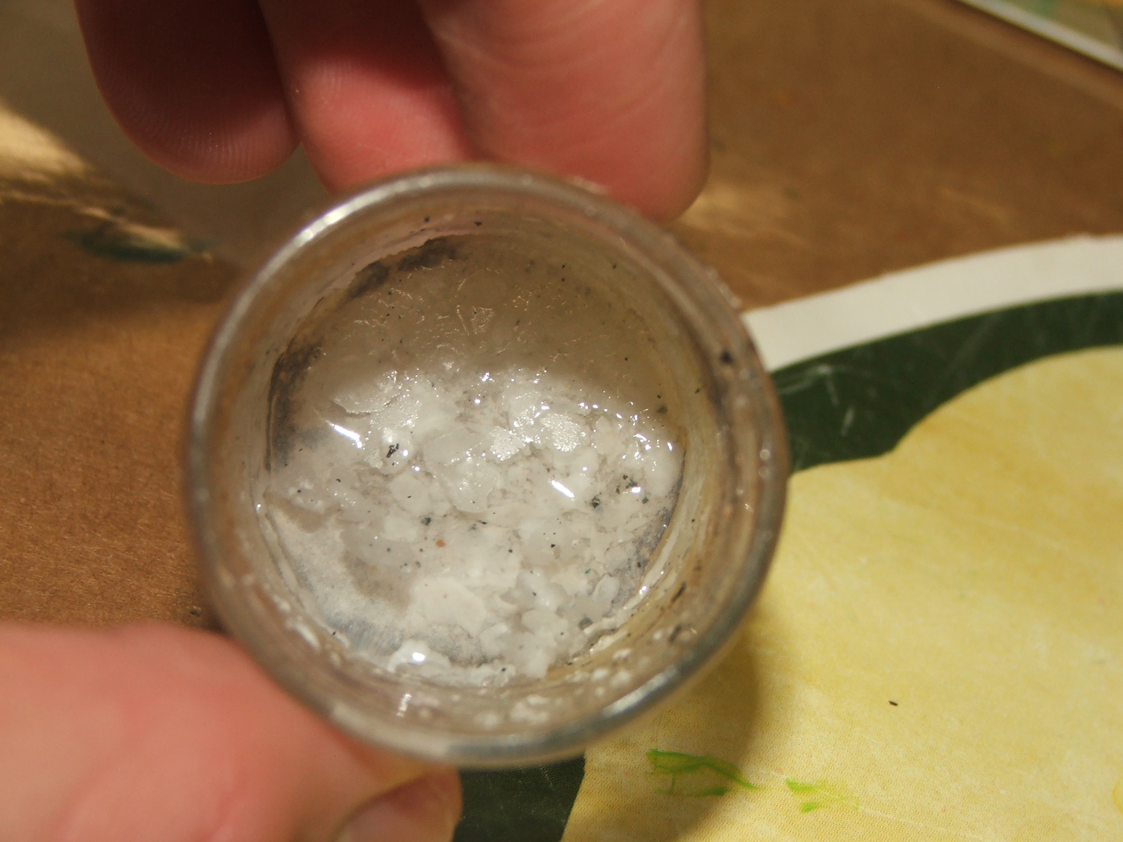 Lithium hydroxide forms less-soluble lithium carbonate which precipitates because of the common ion effect.